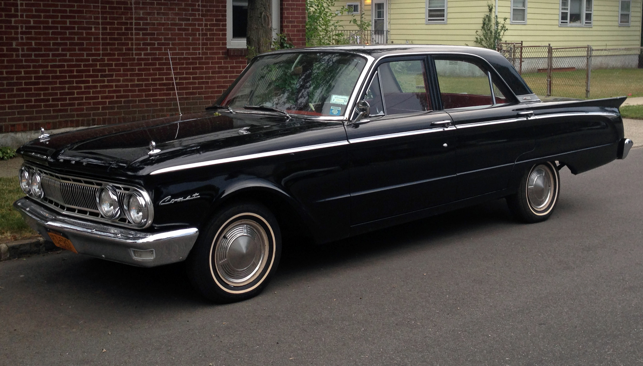 A 1962 Mercury Comet four-door sedan with the single-barrel, 144ci inline-six (2.4 L, 90hp). Assembled in Metuchen, NJ.